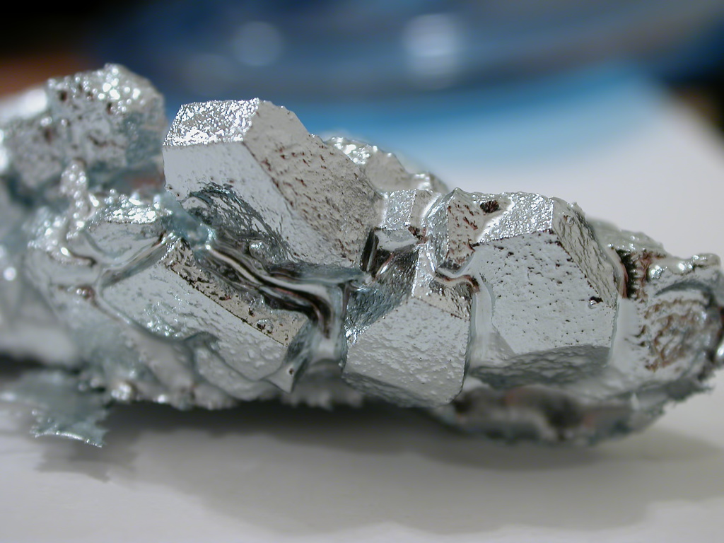 Crystals of 99.999% gallium.